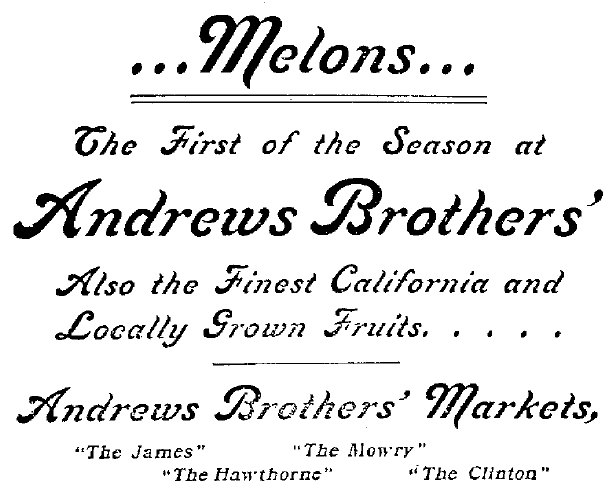 Advertisement for Andrew Bros. Markets in Syracuse, New York